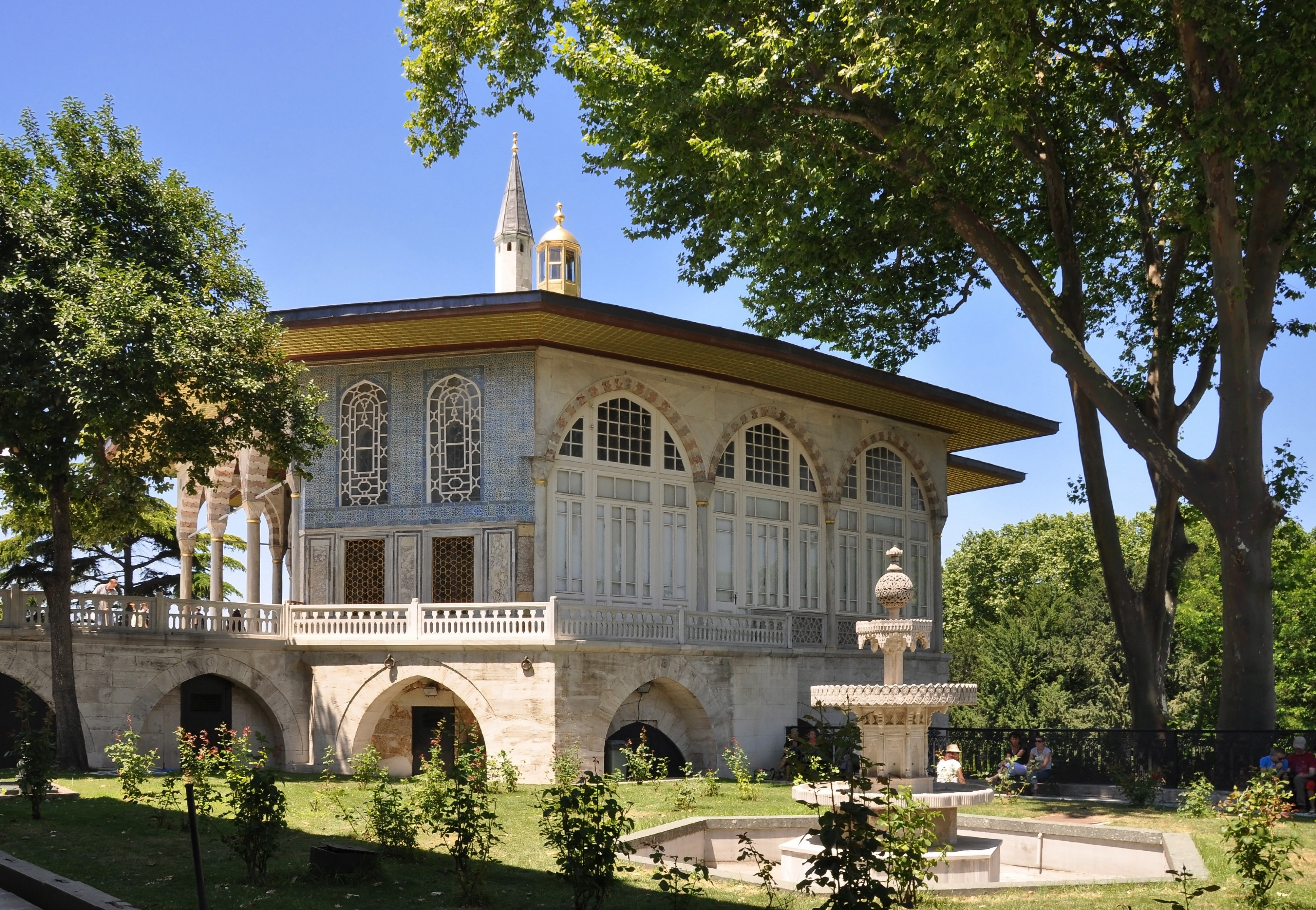 Baghdad Kiosk (Bağdad Köşkü) in the Fourth Courtyard of the Topkapı Palace in Istanbul, Turkey.